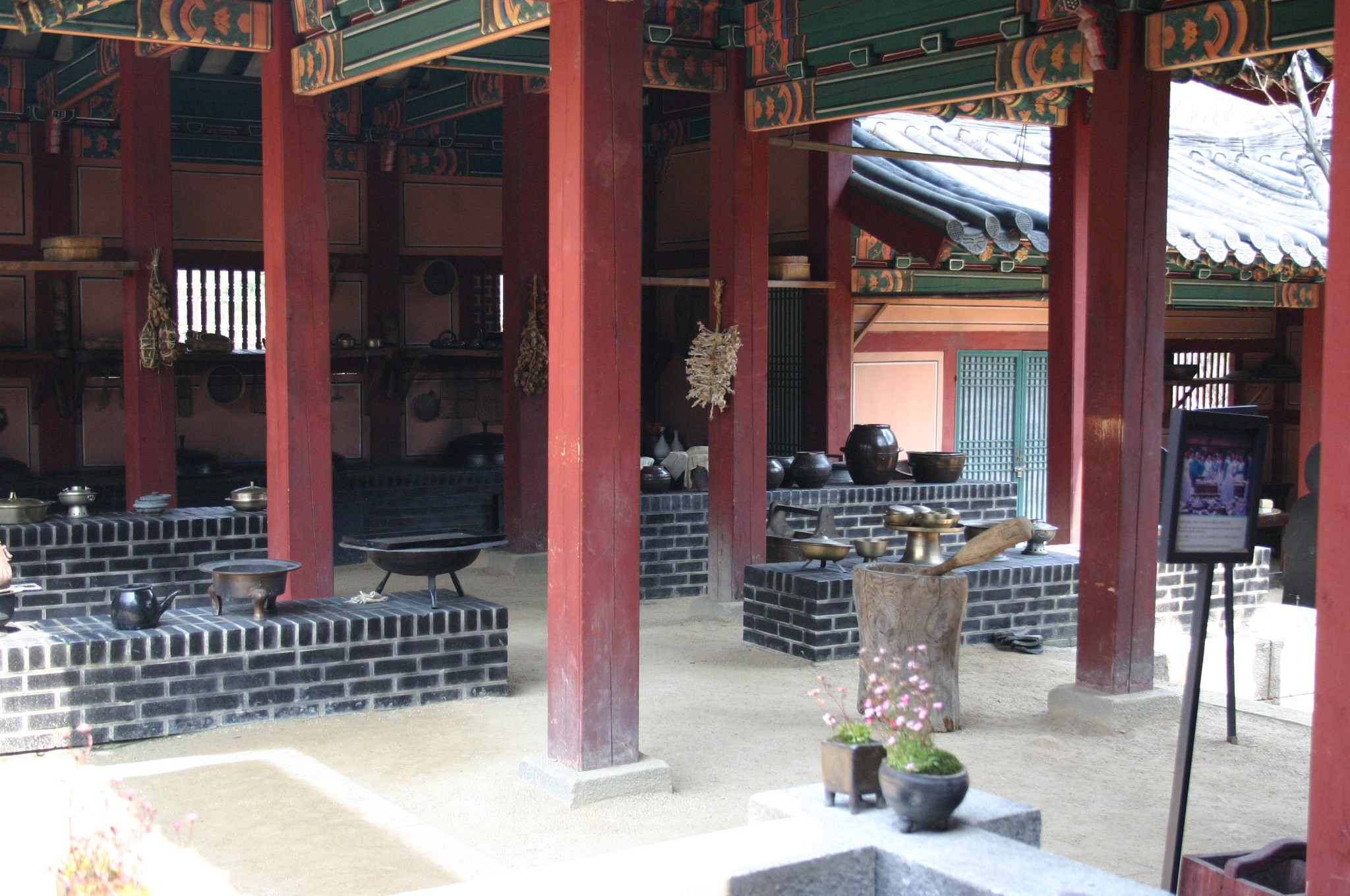 Korea-Dae Jang Geum Theme Park